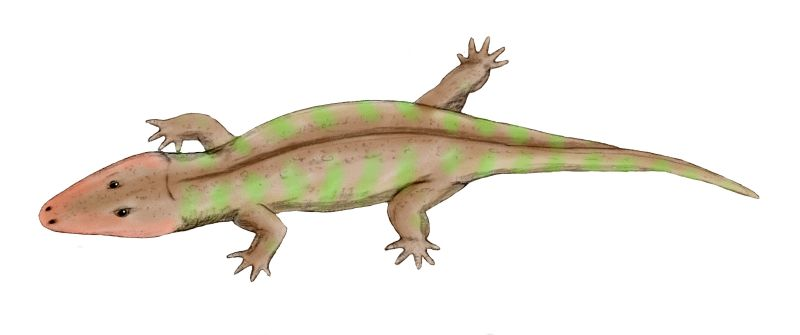 Rhinesuchus whaitsi, a temnospondyli from the Late Permian of South Africa, pencil drawing, digital coloring